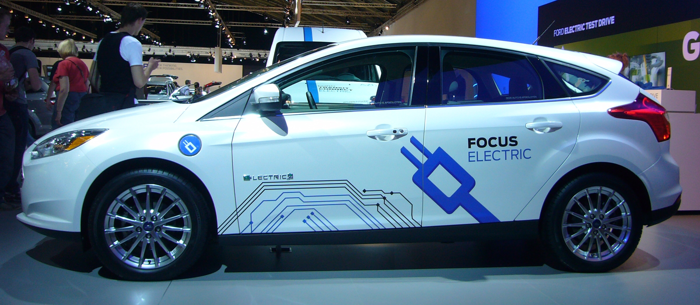 Ford Focus Electric at AutoRAI Amsterdam 2011